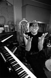 Pascal Auberson